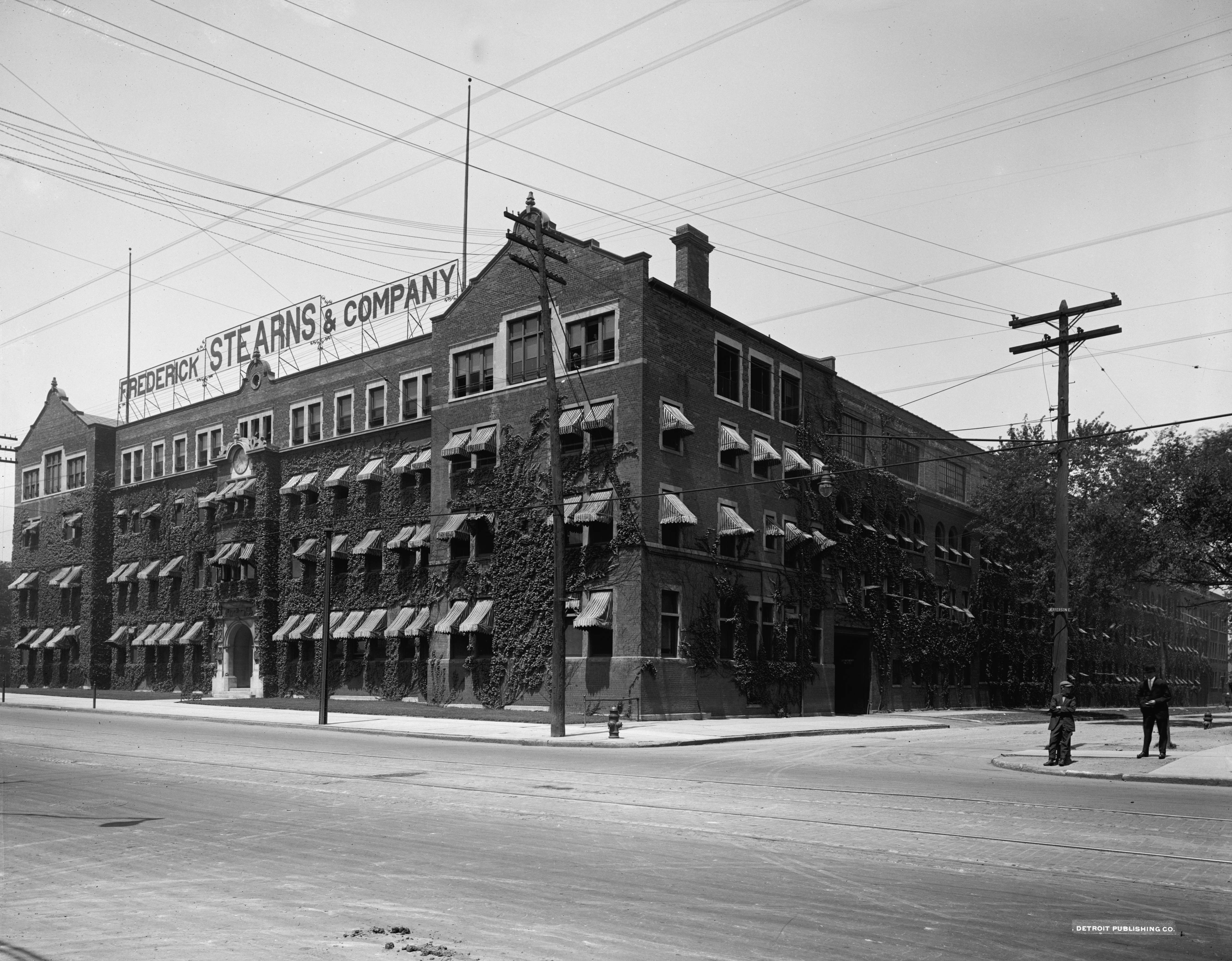 Frederick Stearns and Co. laboratory from southeast, Detroit, Mich